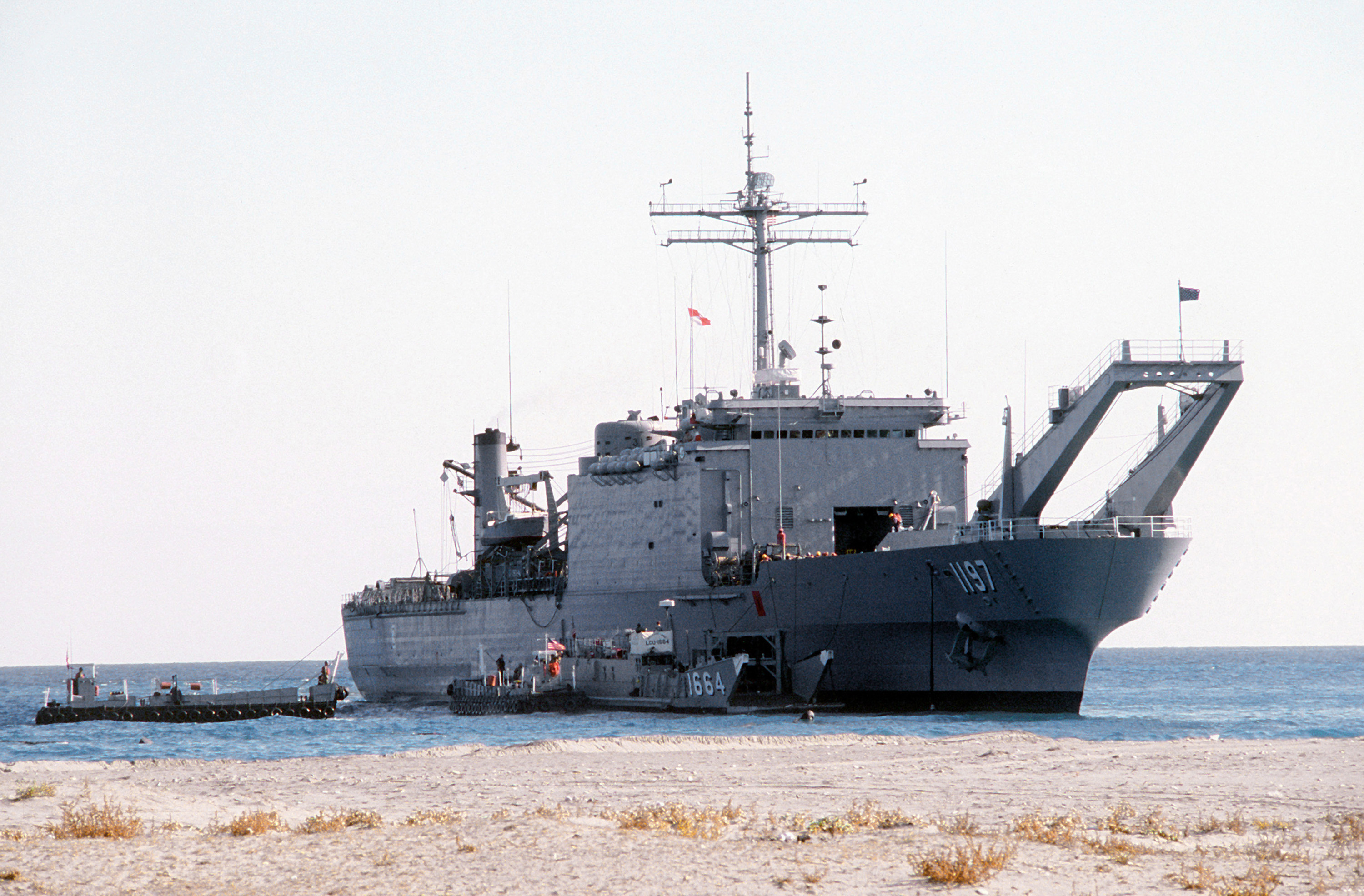 A starboard bow view of the tank landing ship USS BARNSTABLE COUNTY (LST-1197), after landing on the beach during Exercise Crisex '81.